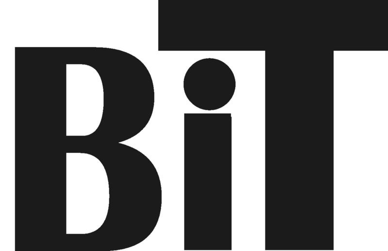 Logo, designed for "Biology by Team", an Austrian Biology competition for pupils at the age of 15-19